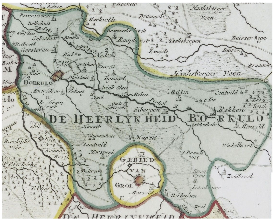 detail of bigger map, Nieuwe kaart van’t kwartier Zutphen, kopperprint, Atlas van de XVII Nederlandsche provintien